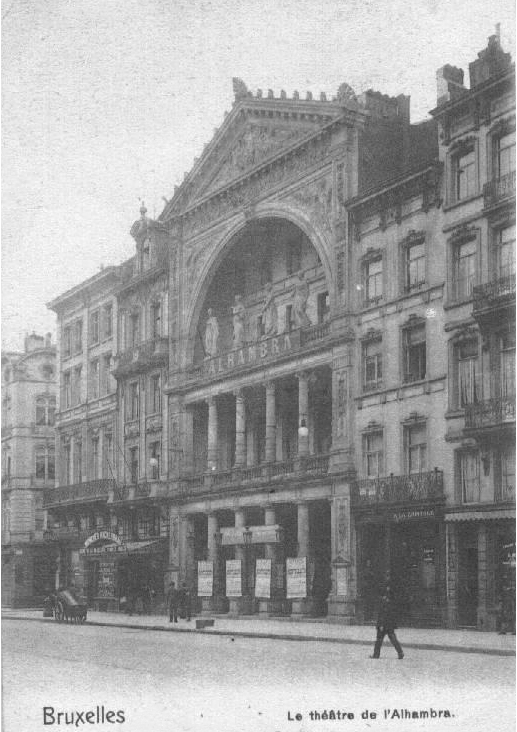 Alhambra Theatre (Brussels) in 1904